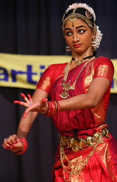 Sringara Rasa as depicted by a dancer of Sri Devi Nrithyalaya Bharatanatyam school in Chennai.